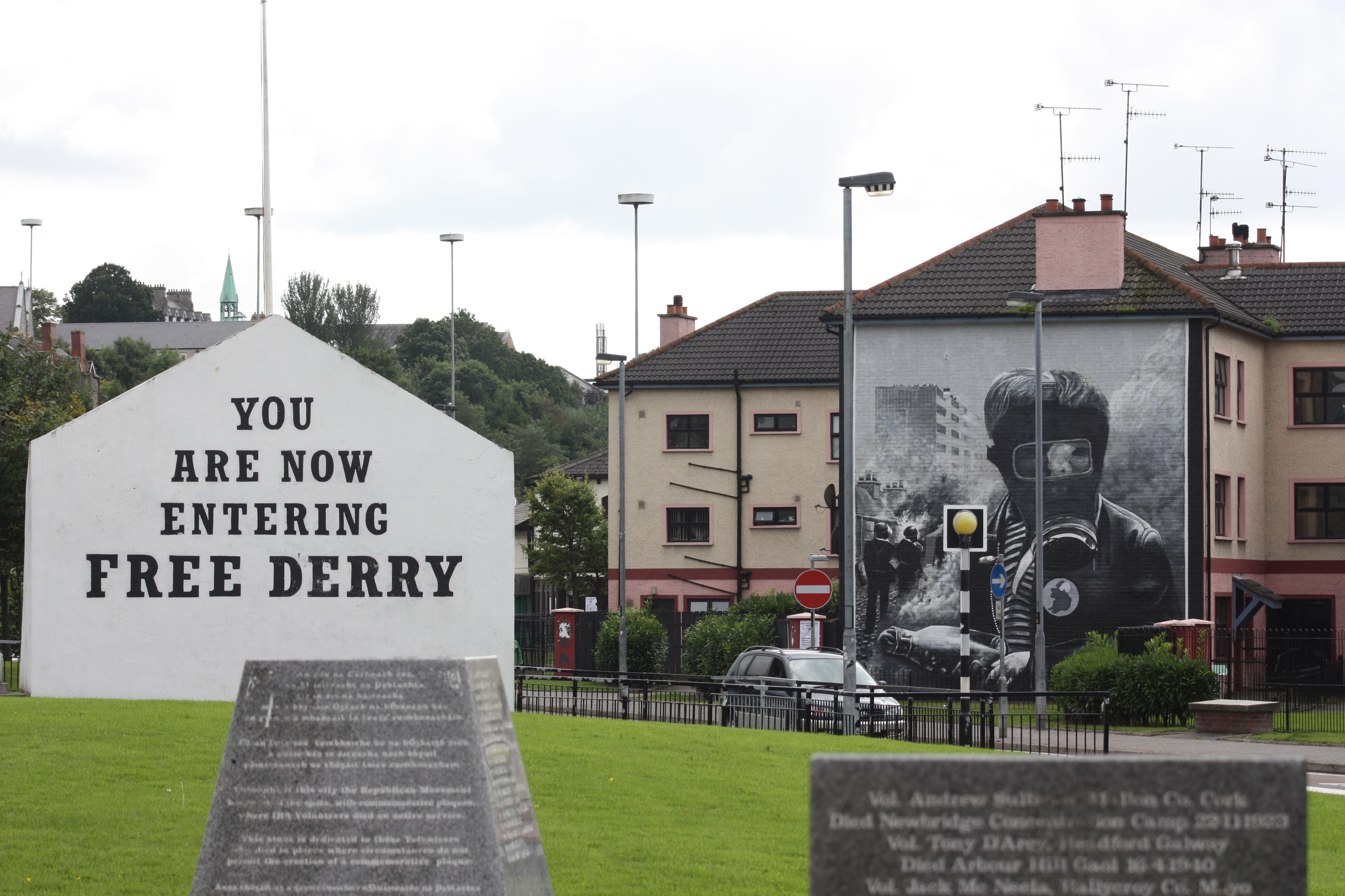 Free Derry Corner, Bogside, Derry, County Londonderry, Northern Ireland, August 2009